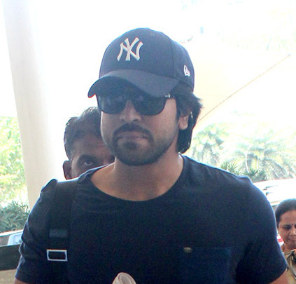 Actor Ram Charan at the Chhatrapati Shivaji International Airport in mid May 2015.